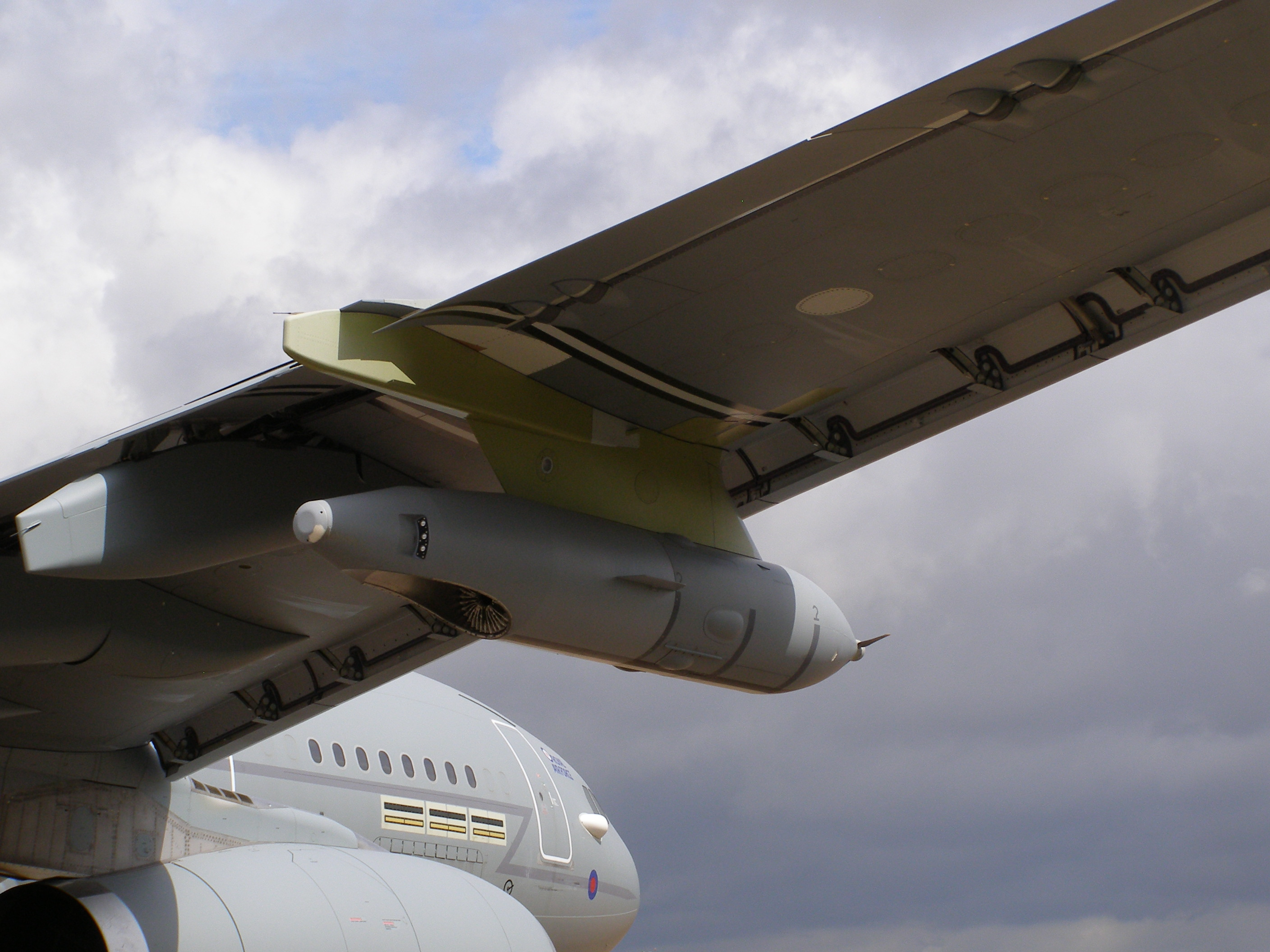 Airbus Voyager Air-to-Air Refueling Tanker (based on the Airbus A330-200) showing the starboard Cobham underwing refueling pod. Aircraft is taxiing for departure from RAF Fairford after the Royal International Air Tattoo 2011